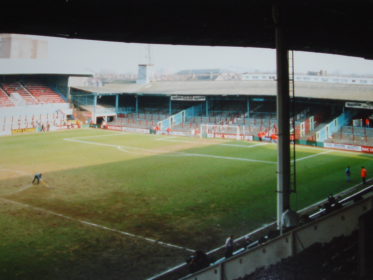 The South Bank stand at West Ham's Boleyn Ground taken is 1991. Digitised image from original 35mm photo